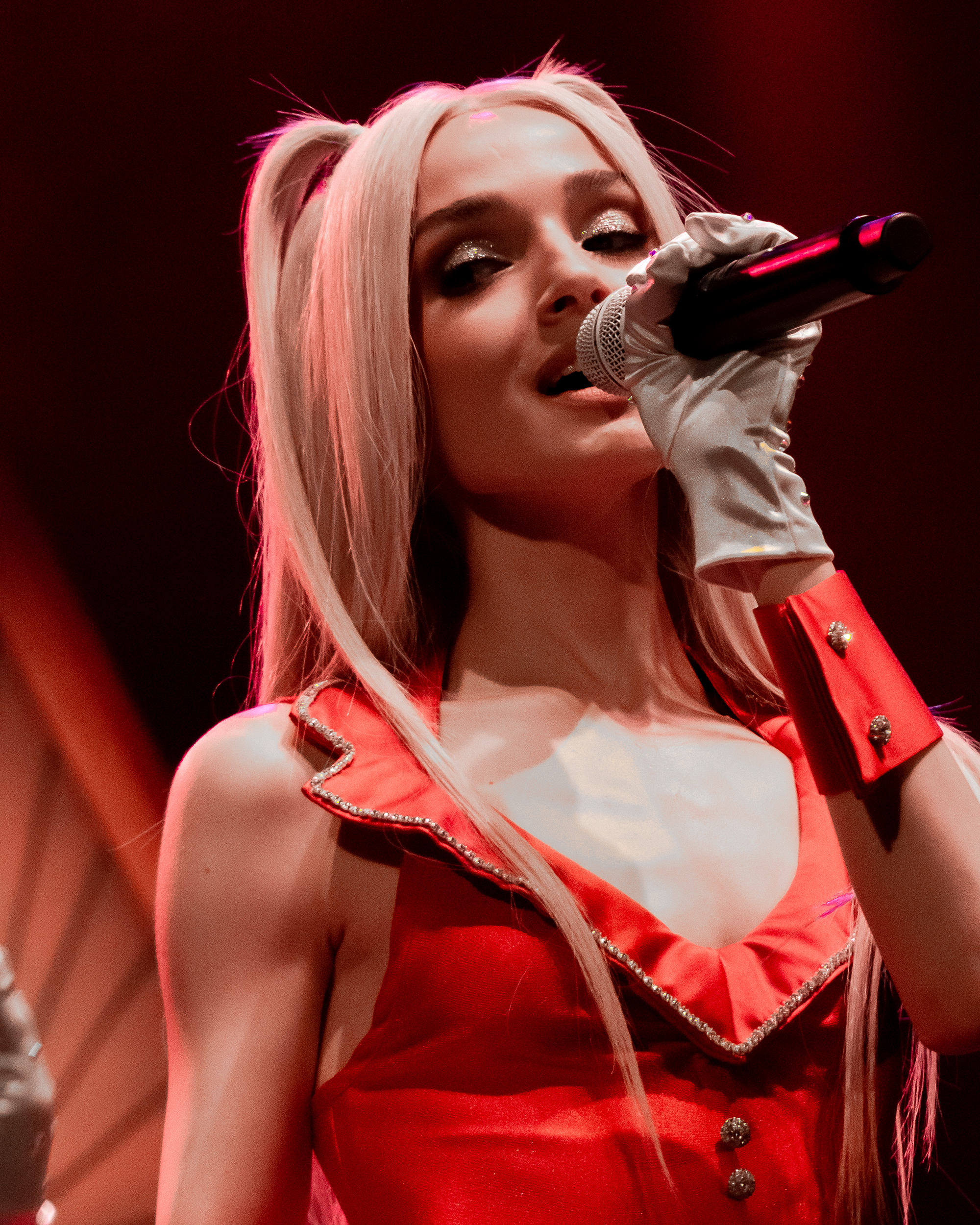 Poppy performing live at The Wiltern in Los Angeles, California, on Wednesday, October 31, 2018.